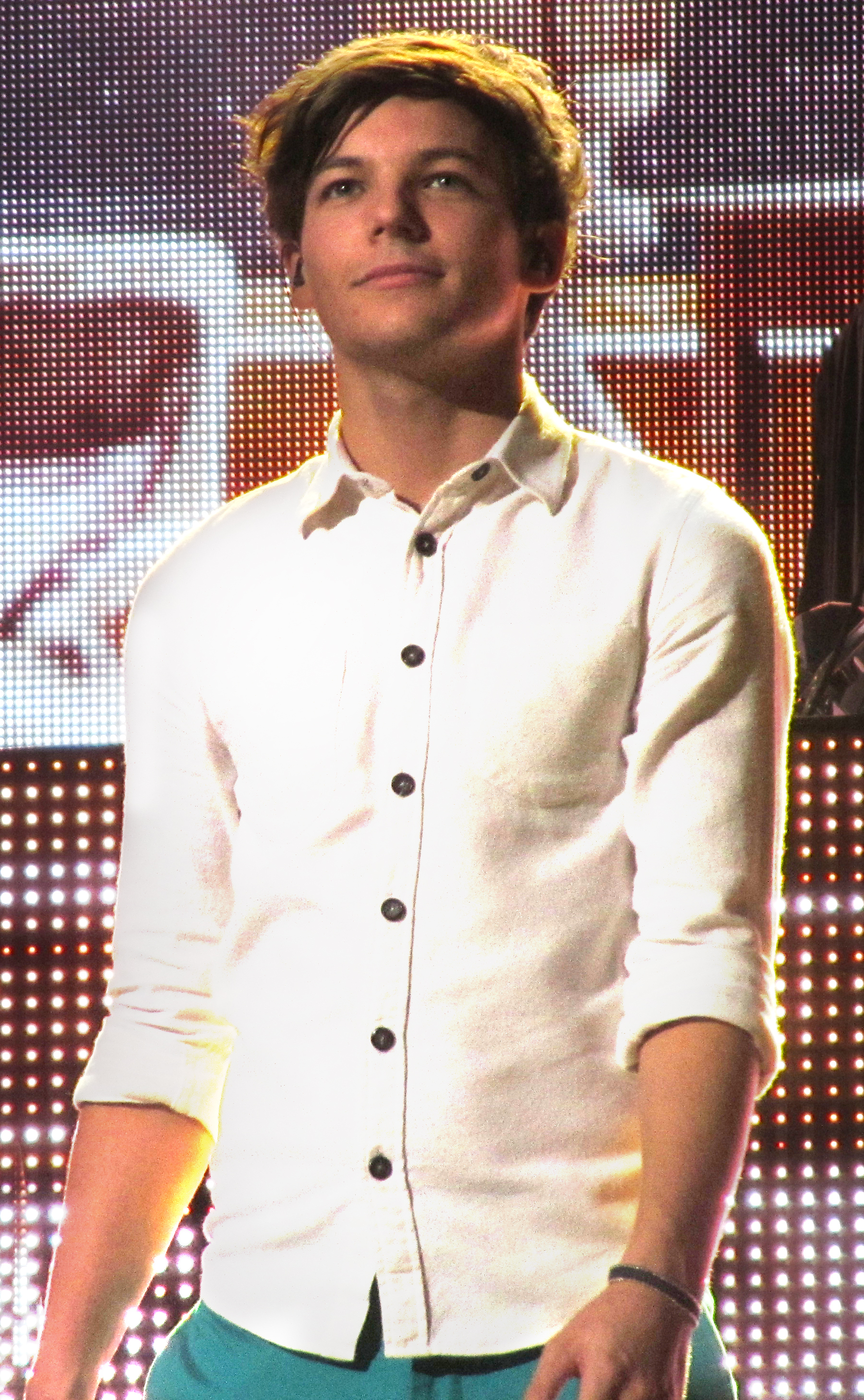 Louis Tomlinson, One Direction, Clyde Auditorium, Glasgow, Saturday 14 January 2012